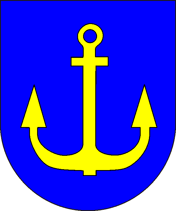 coat of arms